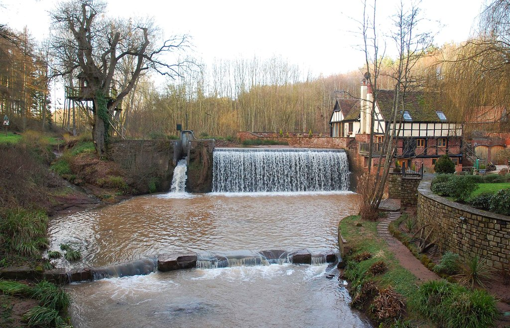 Prior's Mill and weir, Astley, Worcs